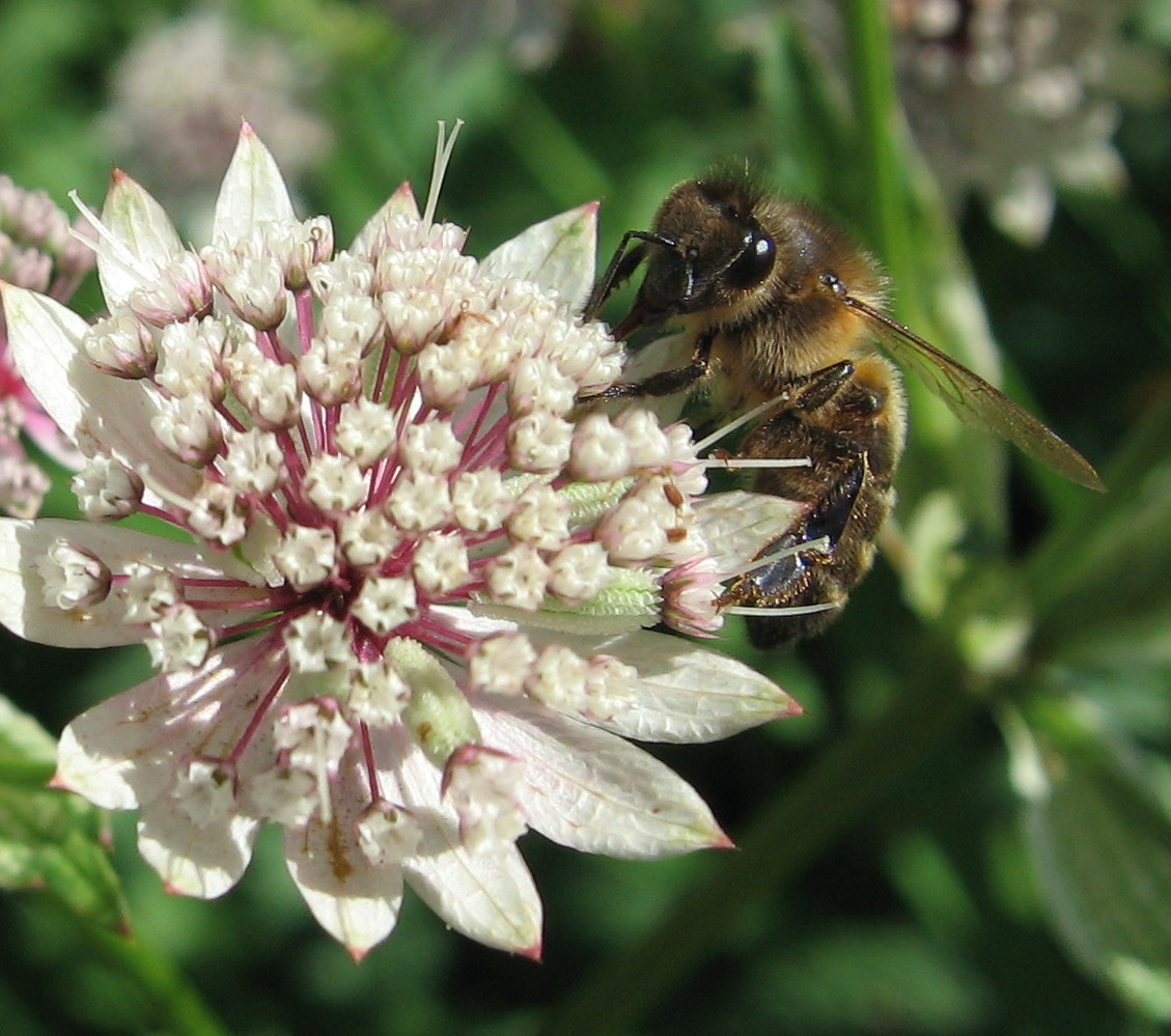 No bad for hand-held, even if i do say so myself ;-) (Astrantia sp.) view large